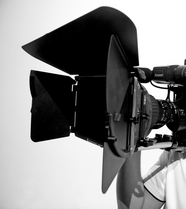 Picture of a matte box